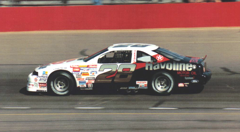 The Robert Yates Havoline Texaco Ford #28 was driven by Davey Allison to a 39th place finish after engine failure in the 1989 Checker Autoworks 500.Davey Allison #28